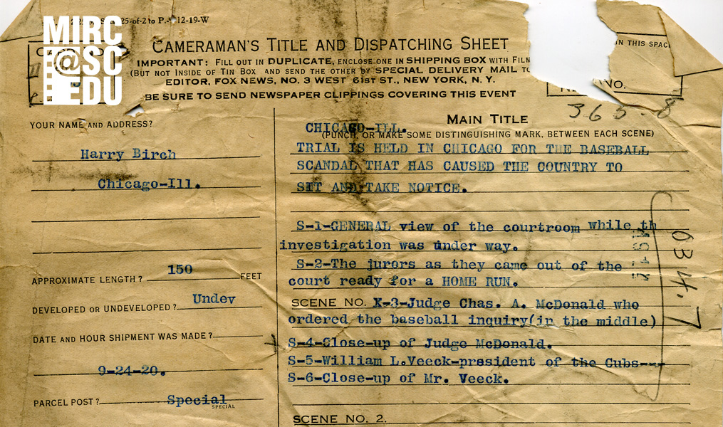 A portion of the original cameraman's information sheet for Fox News Story 4914, which covered the Chicago Black Socks trial in 1920. The cameraman, Harry Birch, was Fox News' first Chicago staff camera crew. The original record is housed at the University of South Carolina.